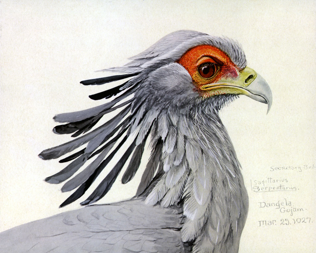 Secretary Bird, Sagittarius serpentarius, offset reproduction of watercolor (new version, with background less washed out, uploaded 11 January 2008)